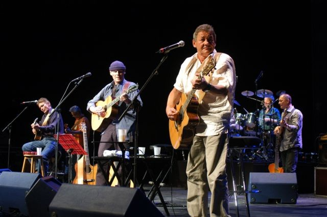 Georg Danzer performing 'with friends' in Vienna's 'Stadthalle'; this was, for a few songs, the 'setup' of former 'Austria 3' group. From left: Rainhard Fendrich, Georg Danzer, Wolfgang Ambros. They were even talking about a revival of 'Austria 3', that evening, but it was Danzer's last appearance on stage. Formally having been a heavy smoker, Danzer died of lung cancer on 2007-06-21, just two days before his announced concert on 'Donauinselfest'. That concert, 'in memoriam Georg Dancer, held by Rainhard Fendrich, had an audience of 200.000.